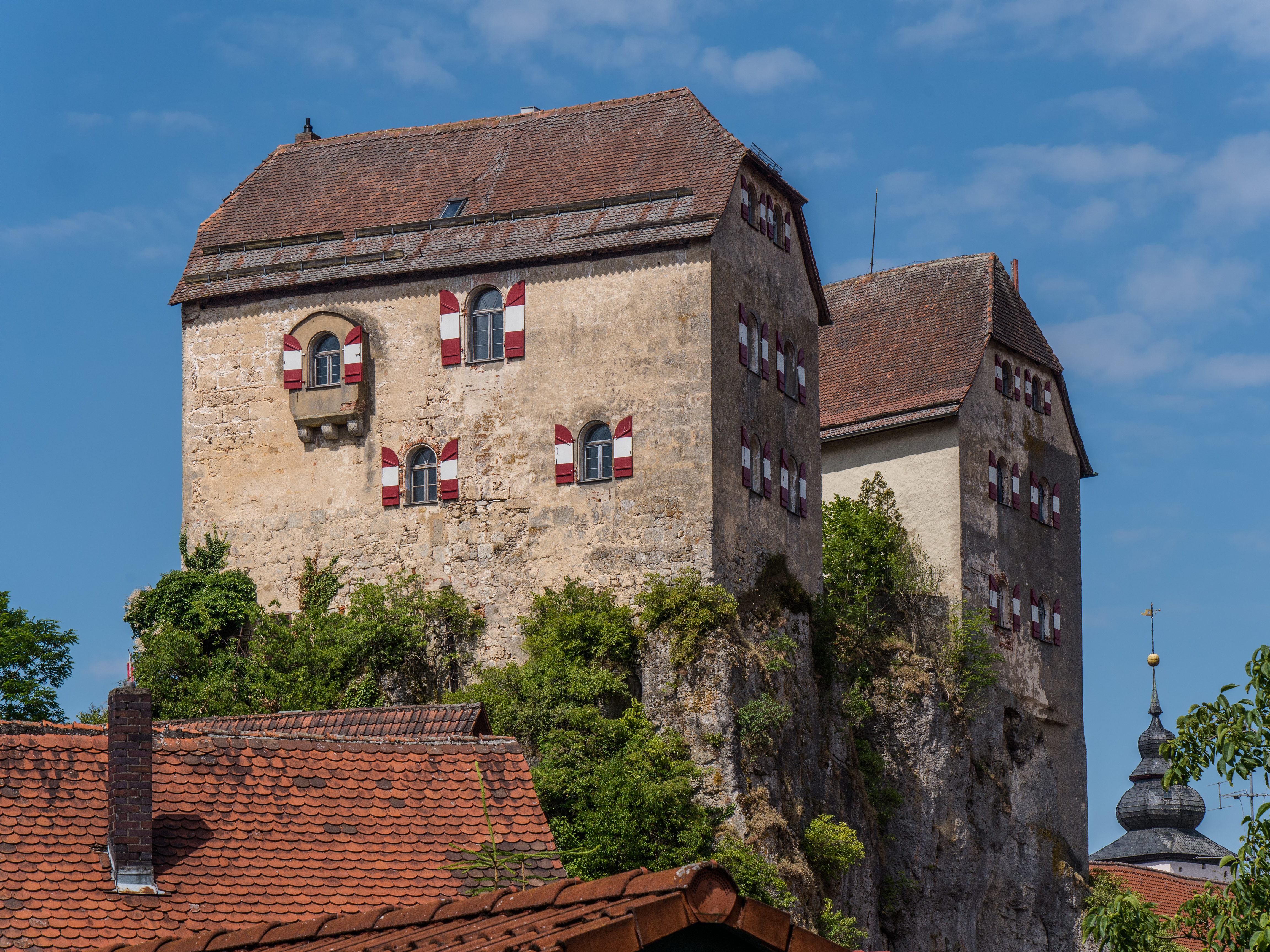 Hiltpoltstein castleThis is a photograph of an architectural monument.